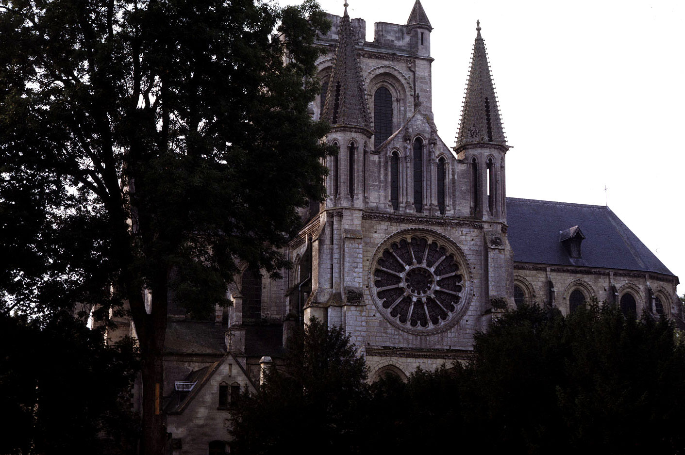 Photo abbaye de braine